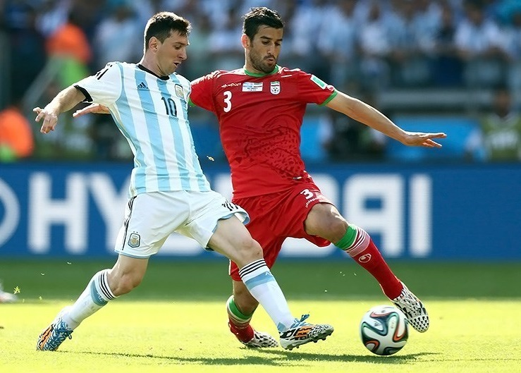 Iran and Argentina national football teams match, 2014 FIFA World Cup Group F